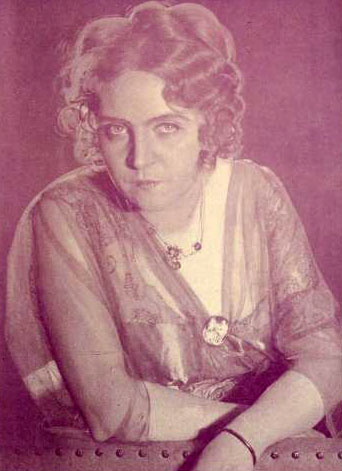 Advertisement in Moving Picture World, Aug 1917